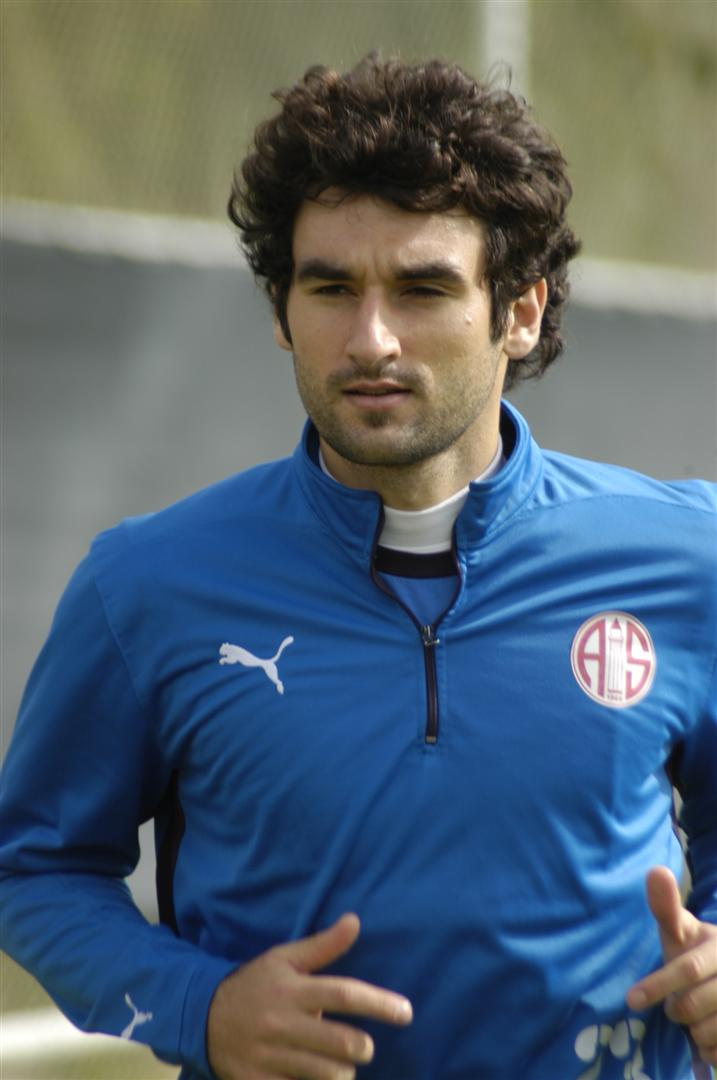 Jedinak with Antalya